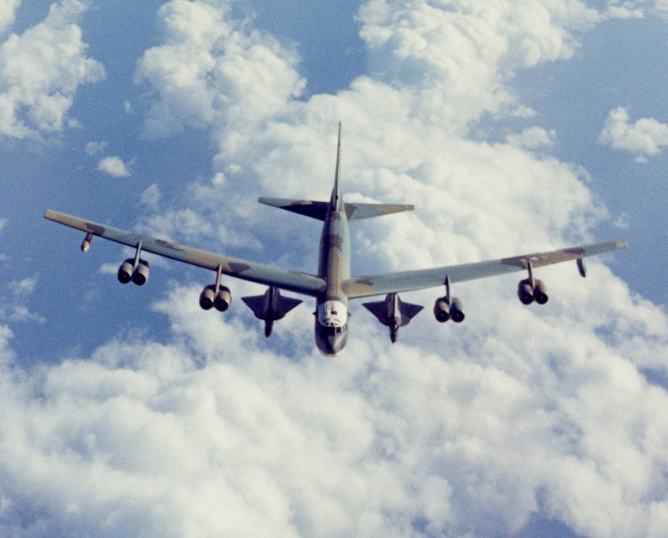 A B-52 carrying two D-21 reconnaisance drones. Photo was most likely taken by the same crewman who photographed the plane while it was refueling.